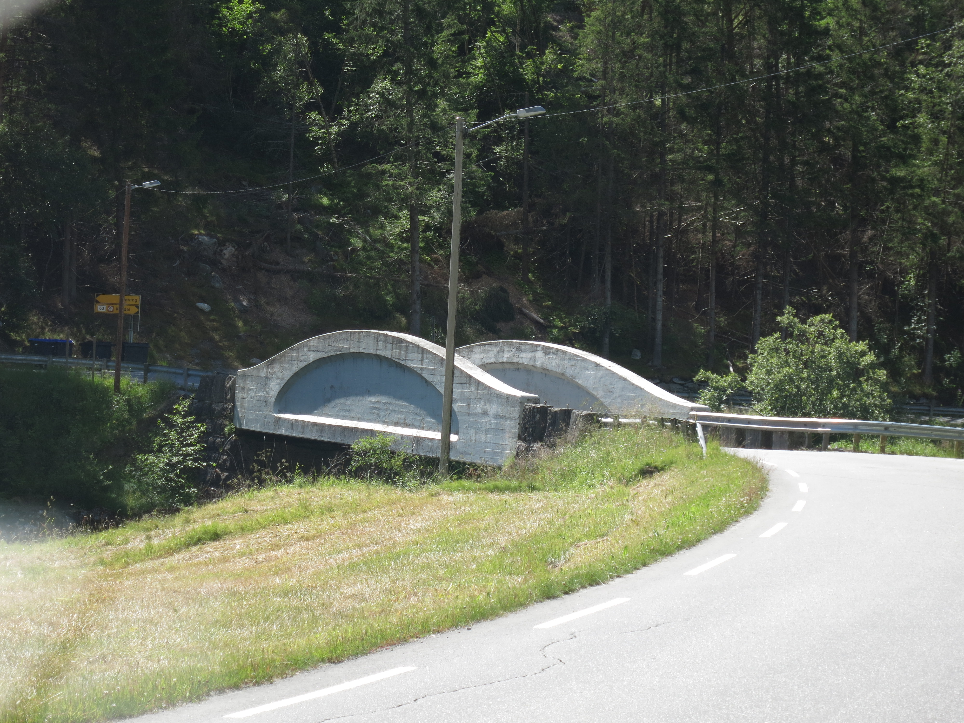 Uribrua road bridge